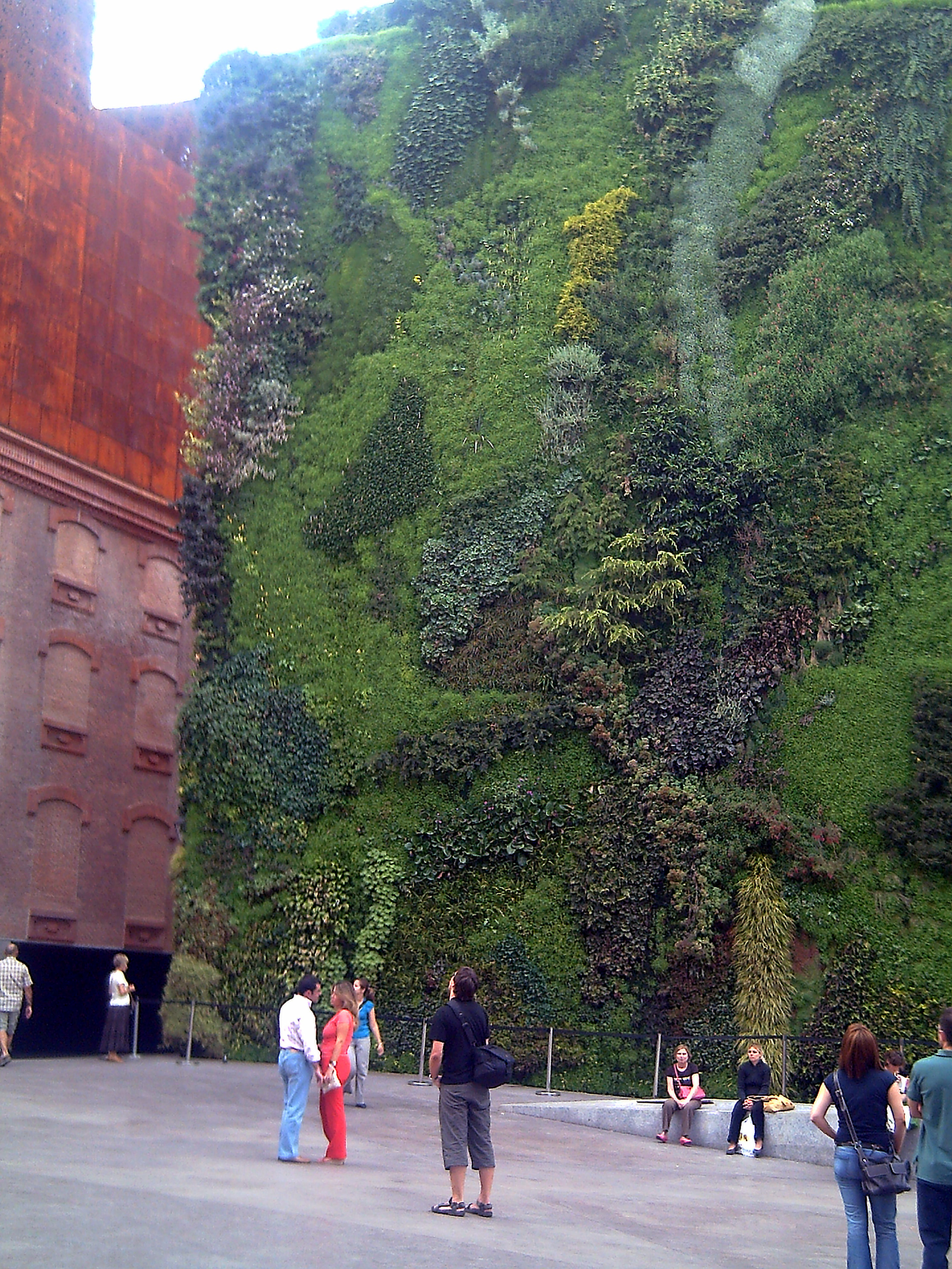 Vertical garden by Patrick Blanc at CaixaForum, cultural center in Madrid, Spain